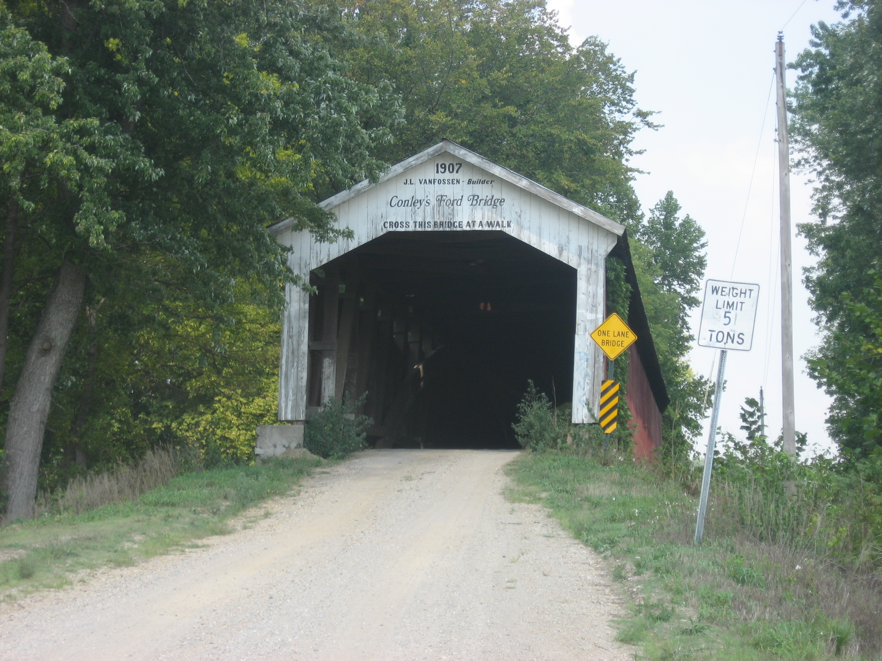 Southern portal of the Conley's Ford Covered Bridge, which carries County Road 550E over Big Raccoon Creek east of Bridgeton in Raccoon Township, Parke County, Indiana, United States. Built in 1907, it is listed on the National Register of Historic Places.